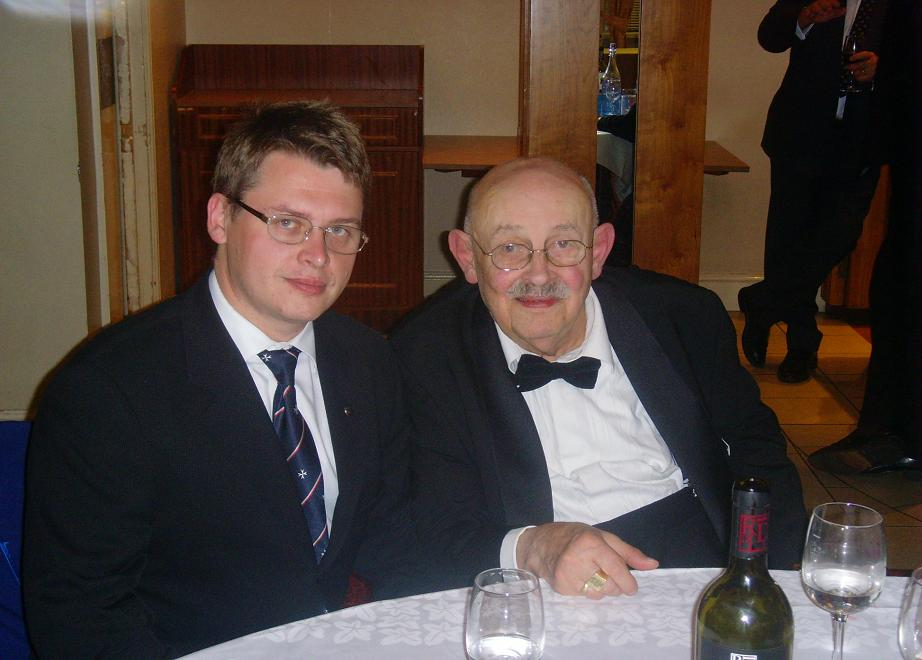 dr Norbert Wójtowicz and Chev. Juliusz Nowina Sokolnicki - Grand Master of the Order of St. Stanislas (The Dinner Night of the Order of St. Stanislas at the Victory Services Club at Marble Arch in London was on Sutarday, November 17, 2007)